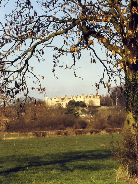 Ledston Hall, Ledston, near Castleford, West Yorkshire, England